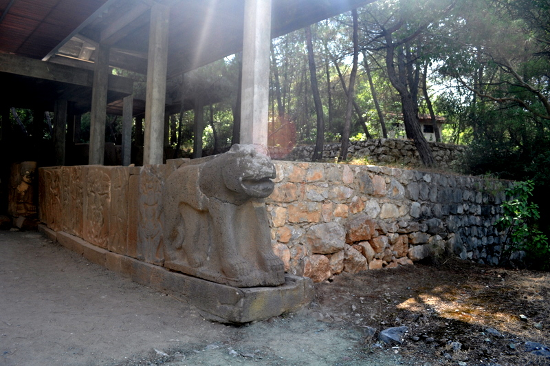 A lion guards the northern entrance to Karatepe. Karatepe is a Neo-Hittite site in Cilicia which has been turned into an open air museum. After the Hittite empire fell towards the end of the 13th century BC. However, Hittite influence continued with a number of petty kingdoms claiming authority via the Hittite name. Asitawata, the ruler of Karatepe, claimed ancestry from the house of Mopsus, but the site shows evidence of Greek influence and some of the inscriptions seem to refer to the Danuna/Danauna, who may be associated with the Greek Danaoi described by Homer in the Iliad. Karatepe is the summer palace of King Asitawata in the 8th century.